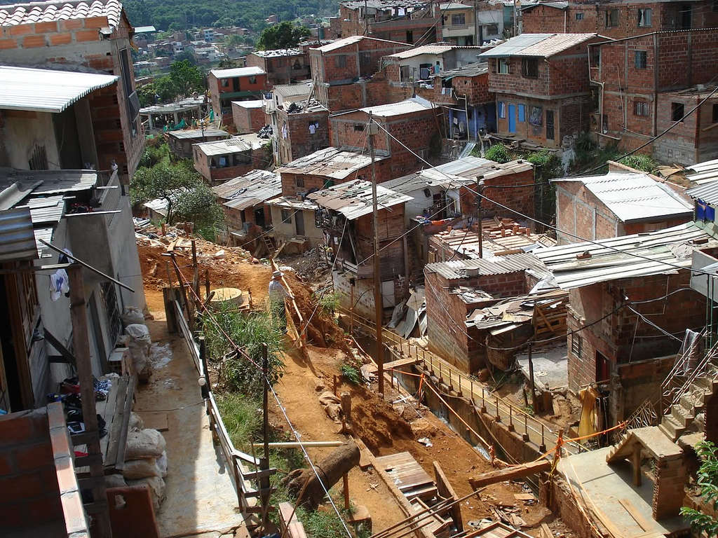 Buildings in Colombia.